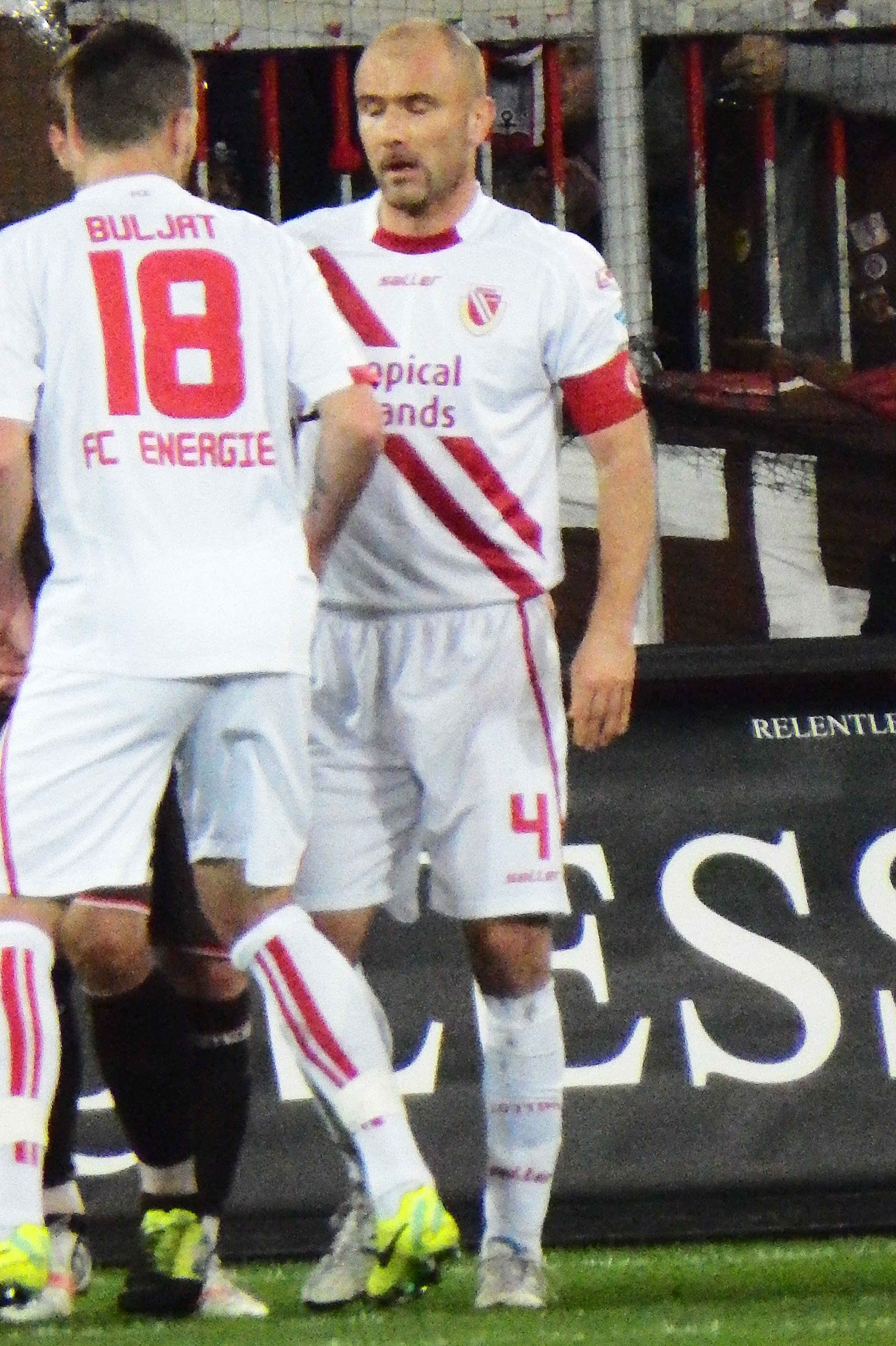 Ivica Banović as Player of Energie Cottbus